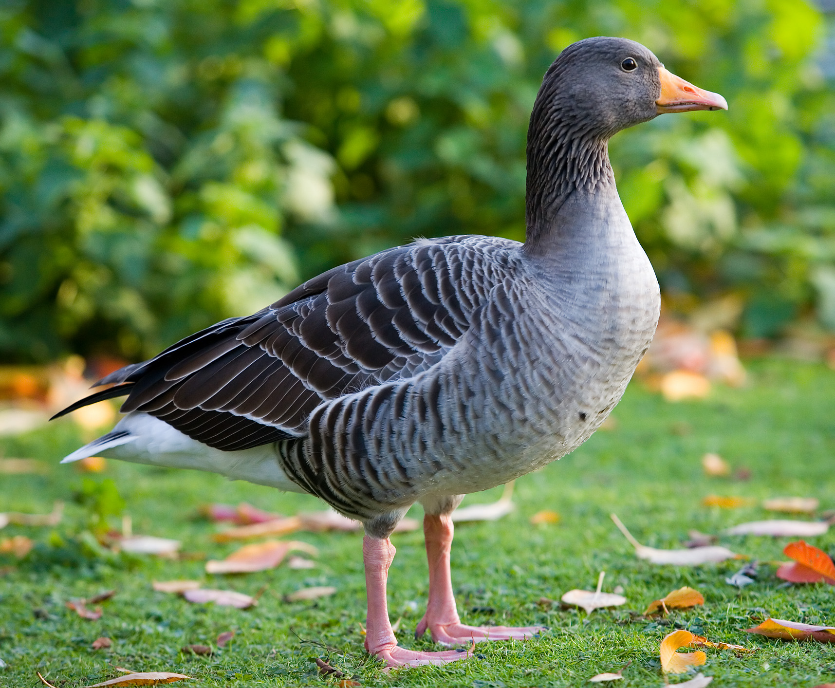 A Greylag Goose (Anser anser) in St James's Park, London, England. Taken by myself with a Canon 5D and a 70-200mm f/2.8L lens.